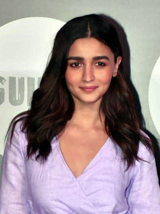 Alia Bhatt grace the screening of Netflix’s film Guilty